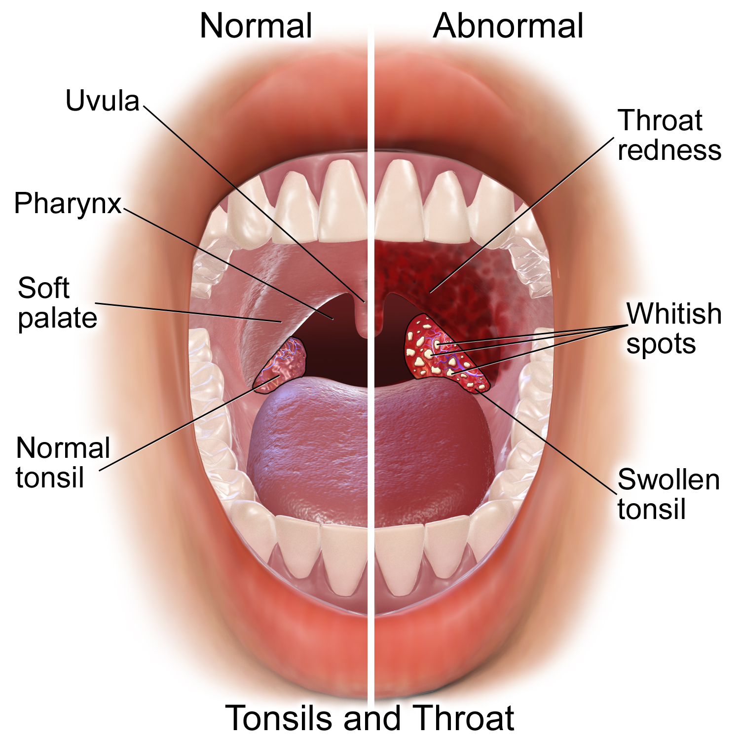 Tonsillitis. See a full animation of this medical topic